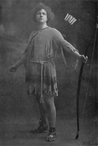 Edward Johnson (Edoardo Di Giovanni) (1878-1959) Canadian tenor